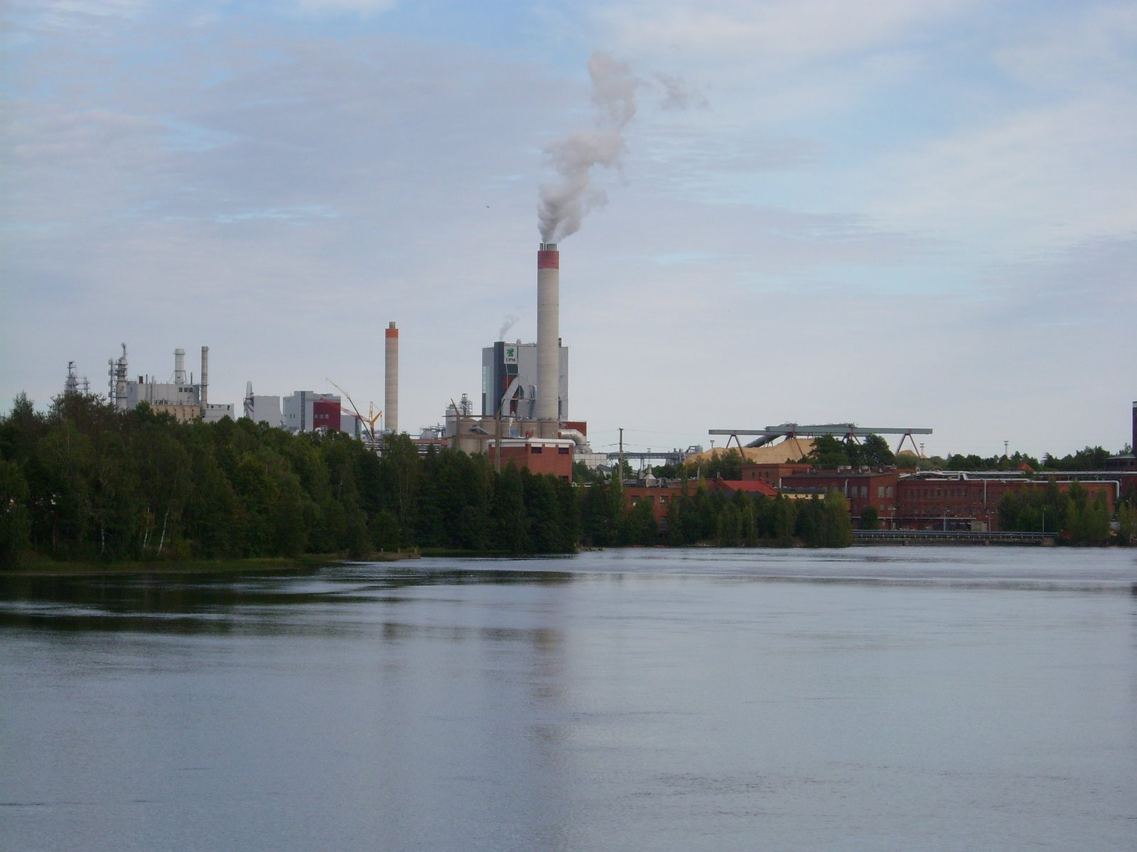 Kymi paper and pulp mill in Kuusankoski, Finland